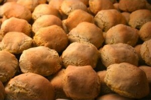 The Sweets Baxin.